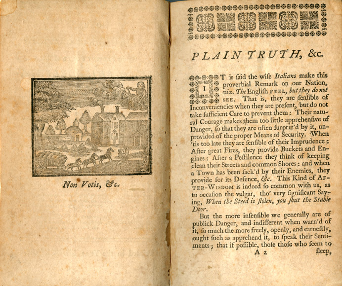 Benjamin Franklin, The Plain Truth, 1747 (first page)